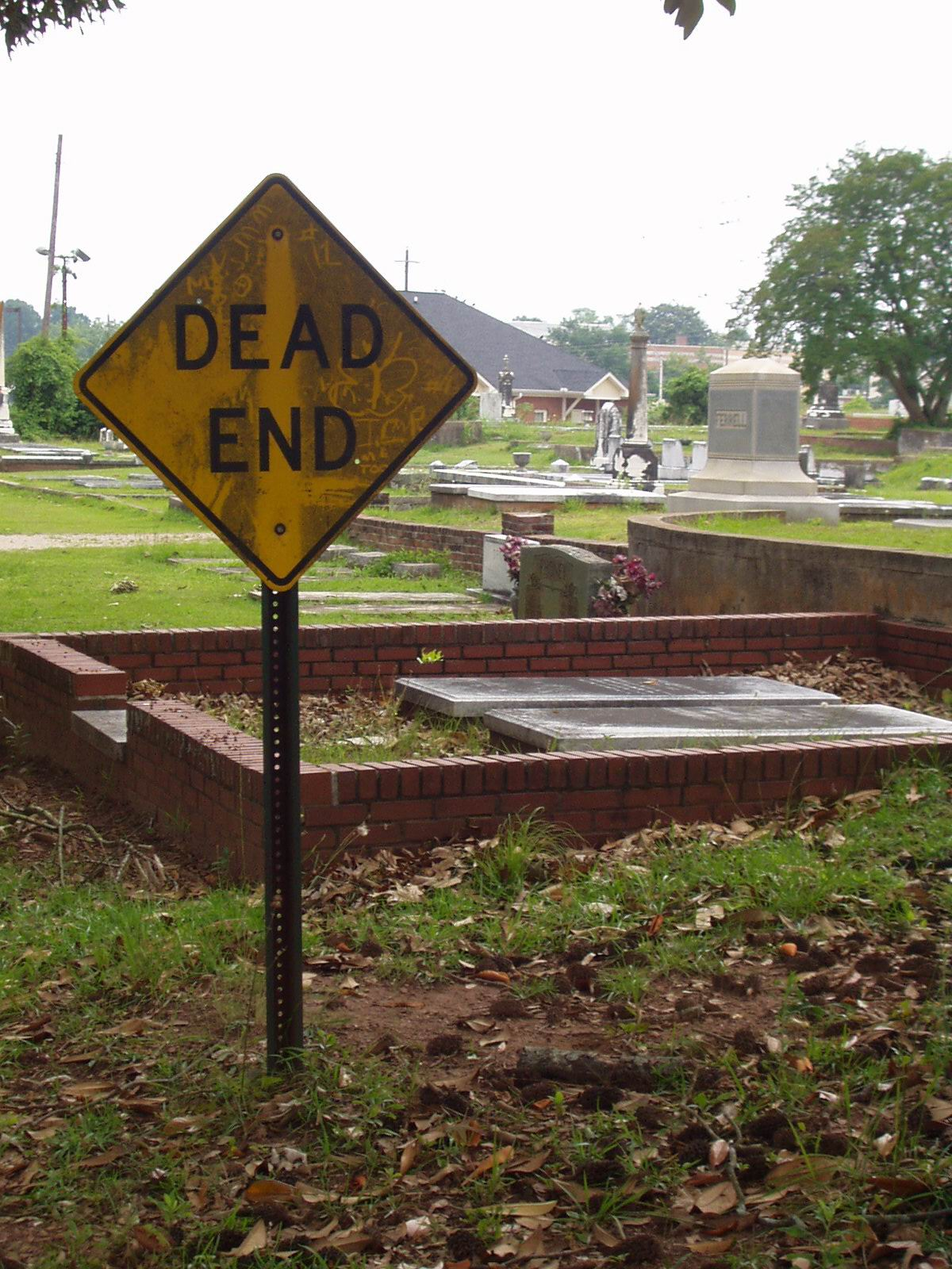 "Dead End"-sign in cemetery in LaGrange, Georgia